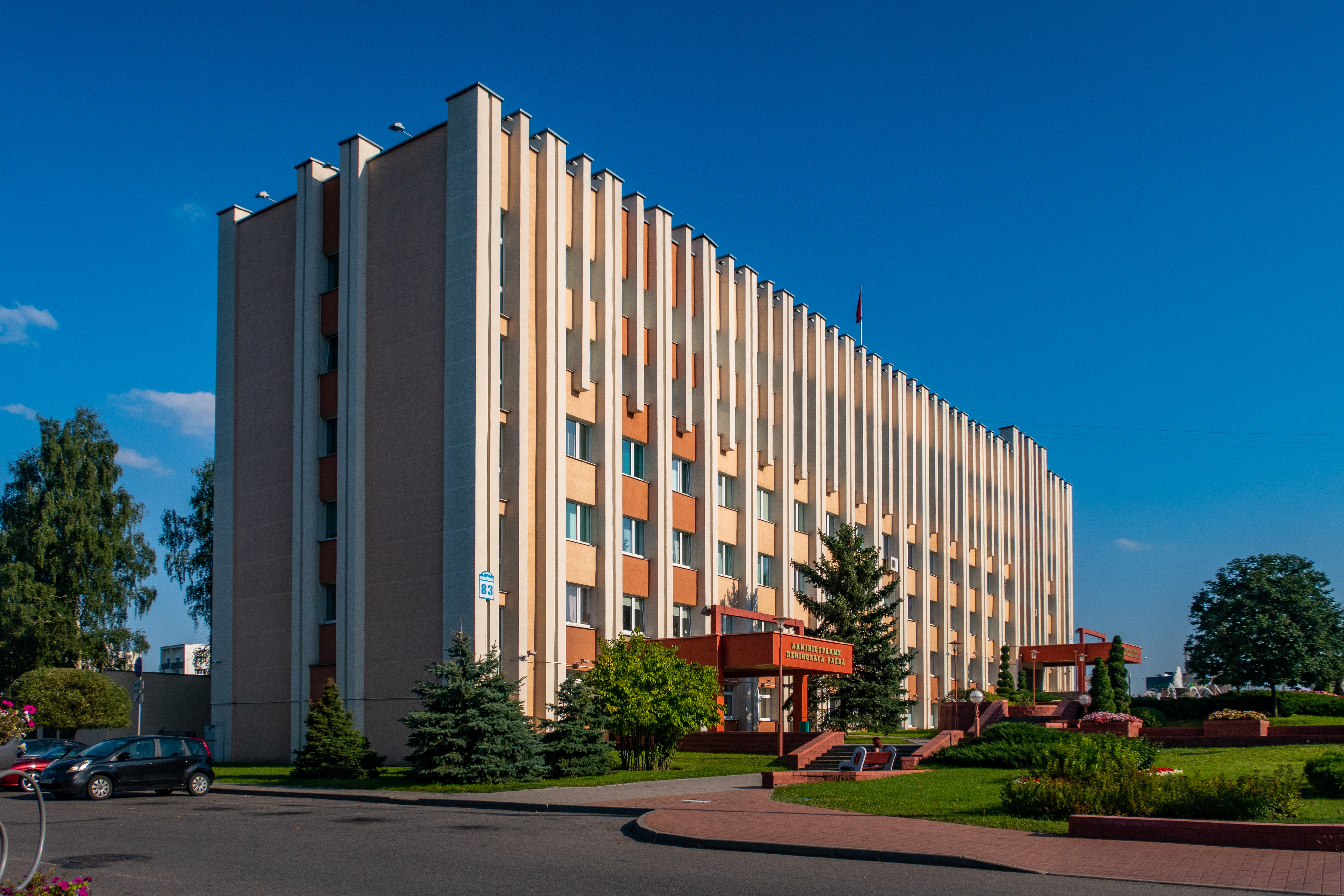 Administration of Lieninski (Leninsky) district of Minsk. Majakoŭskaha street. Minsk, Belarus